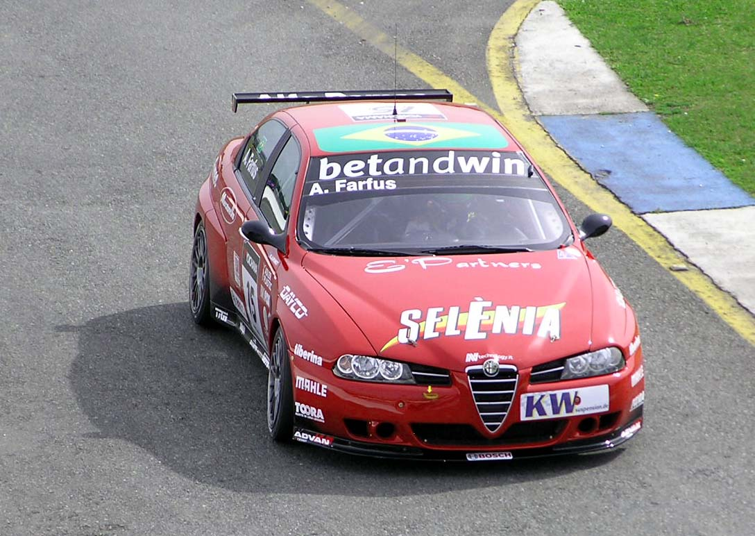 World Touring Car Championship 2006: Augusto Farfus (N. Technology) - Alfa Romeo 156